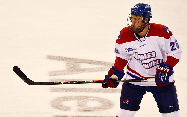 Christian Folin - UMass Lowell (2012-2014)